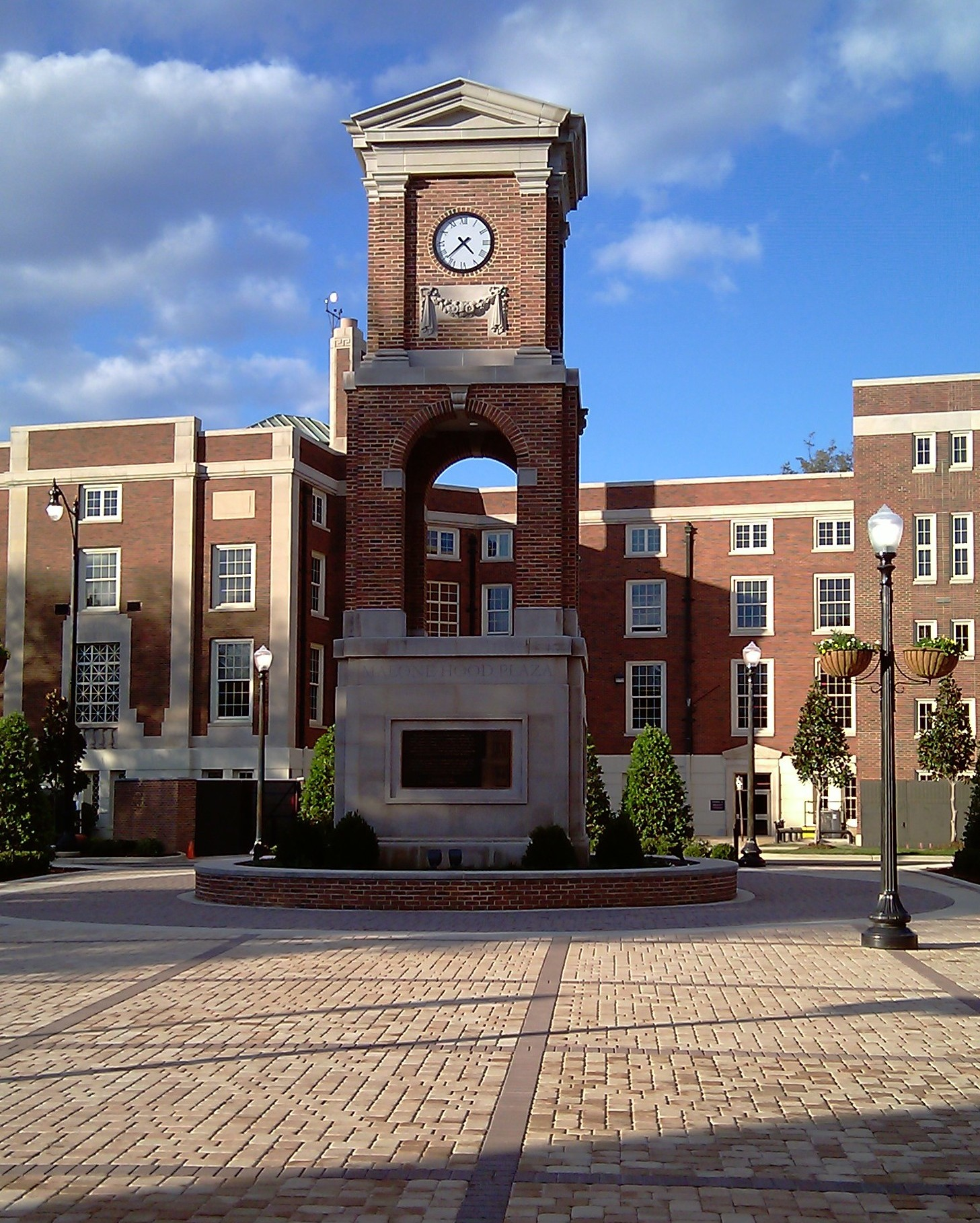 Autherine Lucy Clock Tower in Malone Hood Plaza on the campus of the University of Alabama in Tuscaloosa, Alabama.